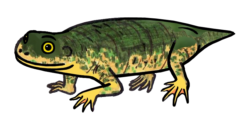 Gerobatrachus, an extinct amphibian, also known as the "Frogamander", because of its anatomical similarities with both frogs and salamanders.